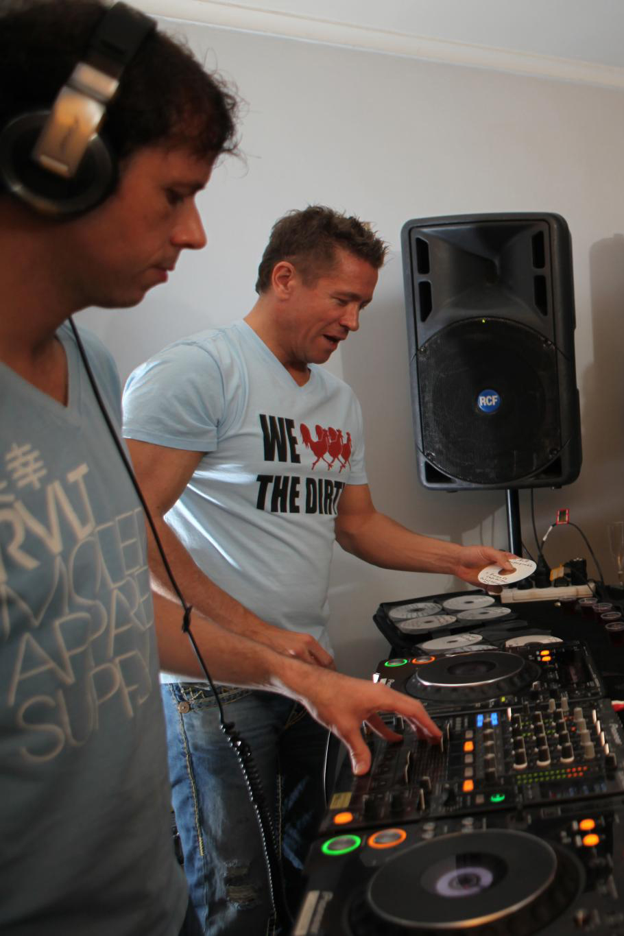 Cosmic Gate performing in Melbourne, Australia, 2009.